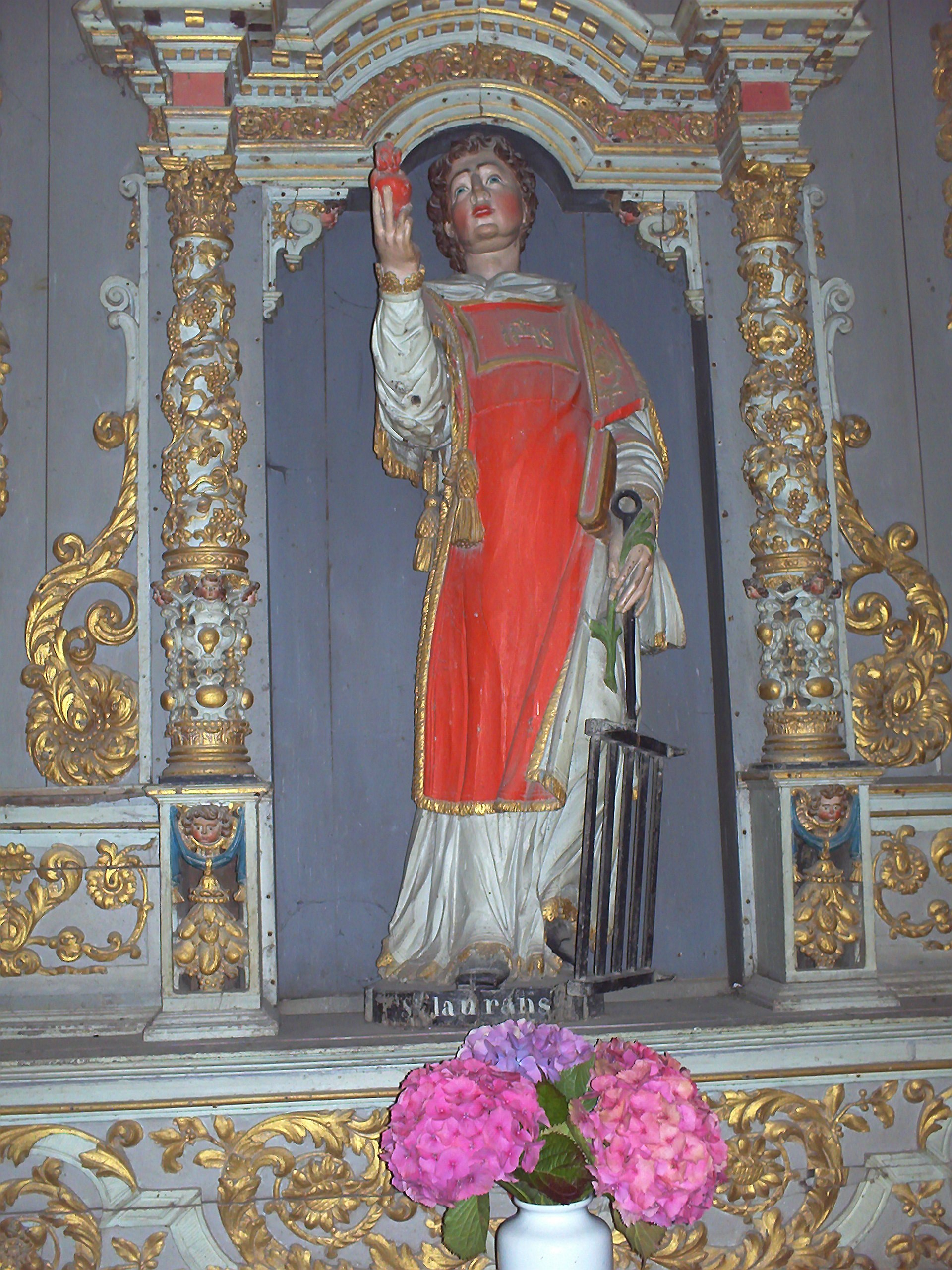 St Lawrence